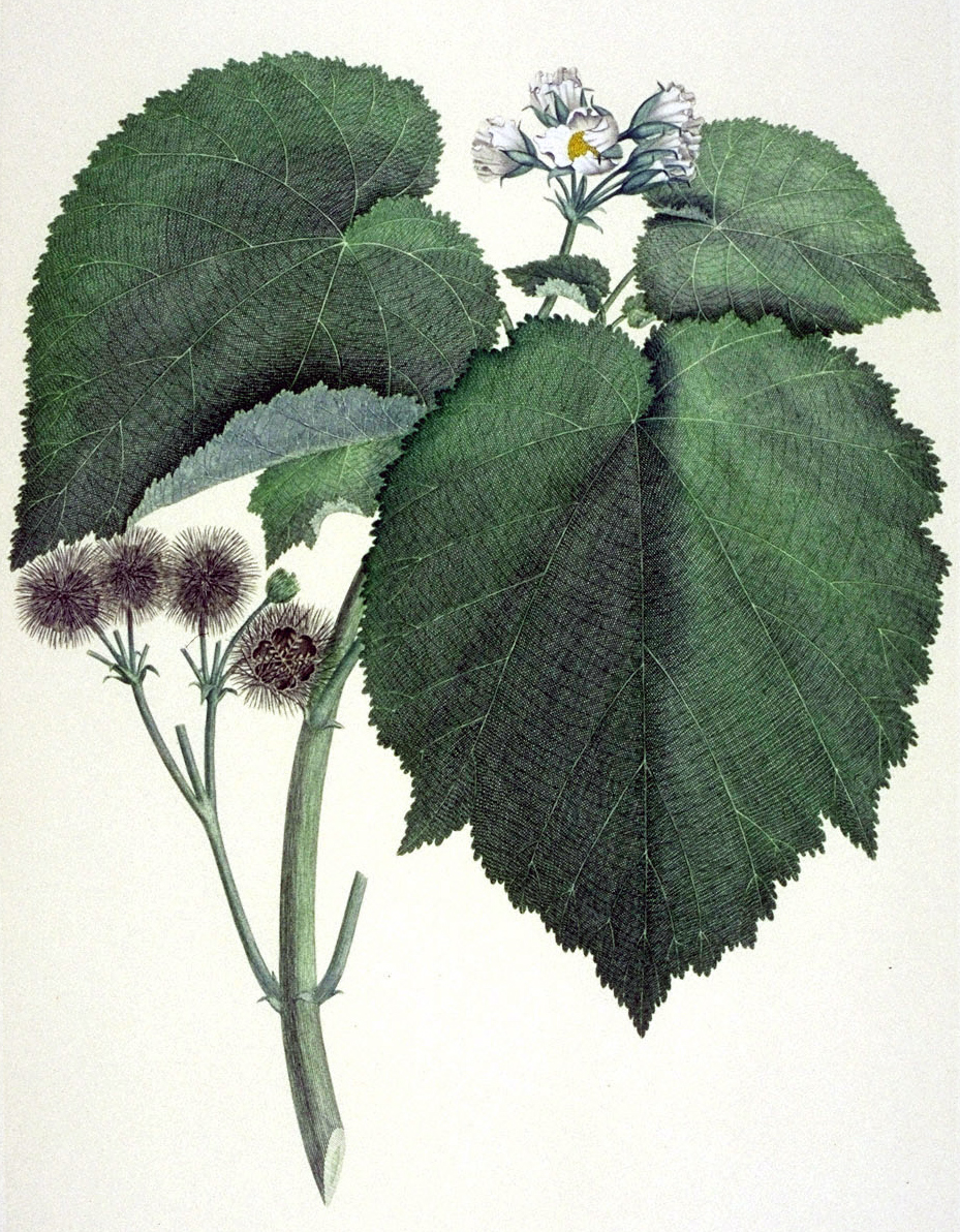 Whau, (Entelea arborescens), collected at Tolaga Bay, New Zealand, during Sir James Cook's first Pacific voyage on the Endeavour, 1768-1771. Coloured engraving, ink and watercolours on Paper.